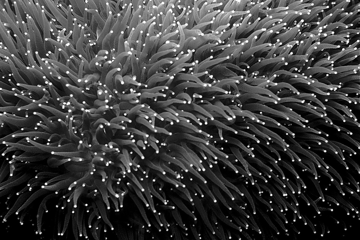 An extreme closeup of a colony of Pillar coral (Dendogyra cylindrus).